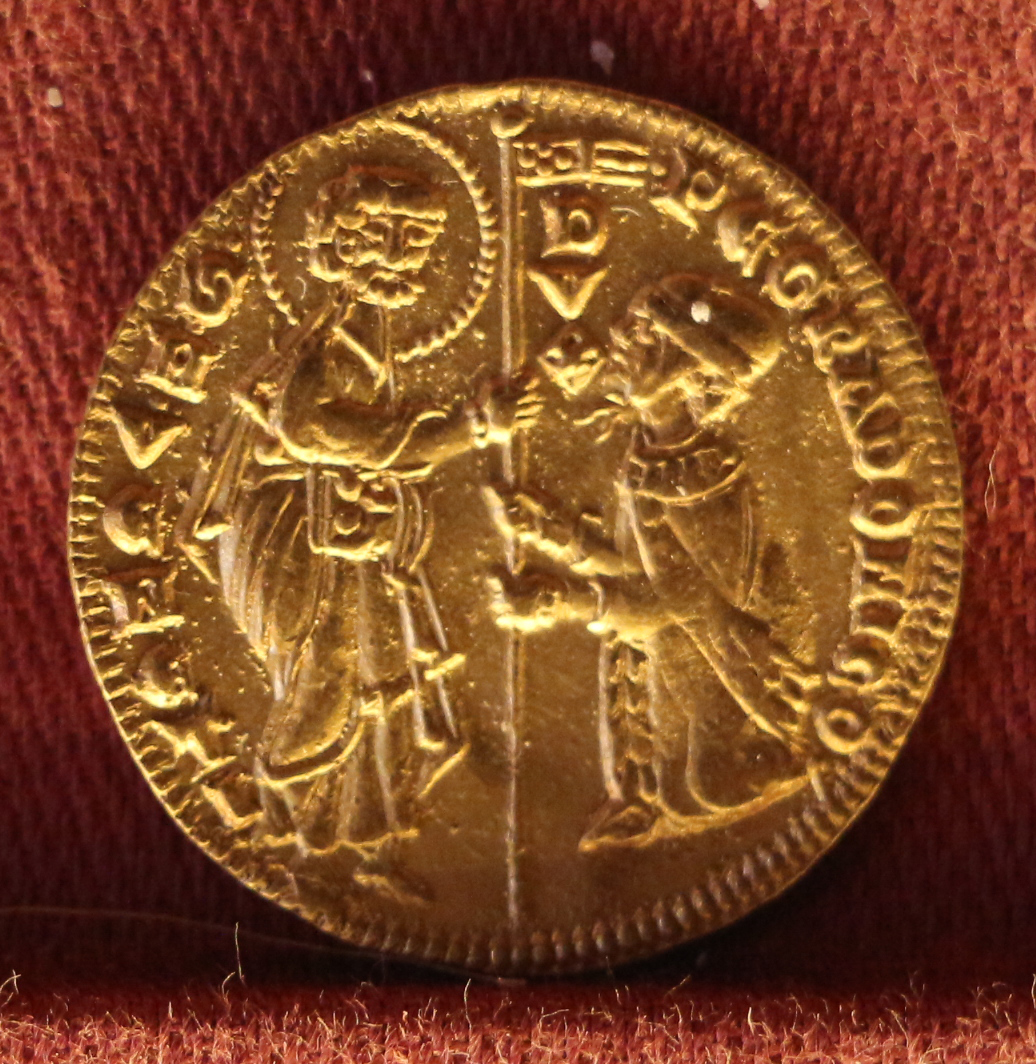 Coins of Venice in the Museo Correr (Venice)